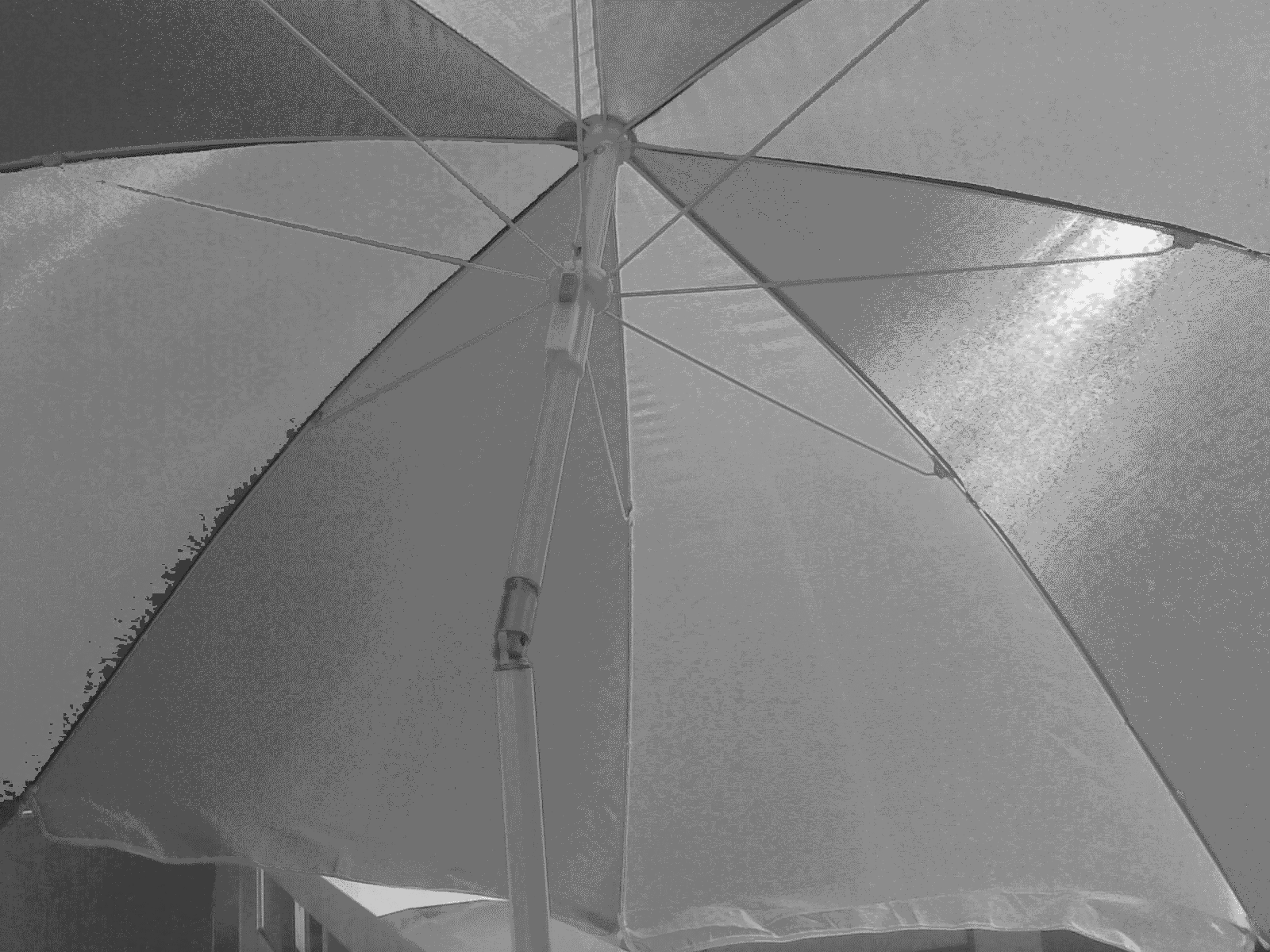 A fourcolored umbrella in a black-white situation.